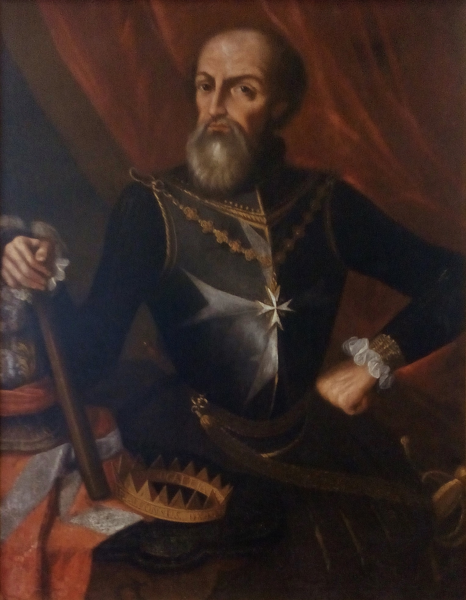 Portrait of Afonso de Portugal (1135-1207), Grand Master of the Knights Hospitaller from 1202 to his death, in the Church of Saint Blaise and Saint Lucy, in Lisbon, Portugal.